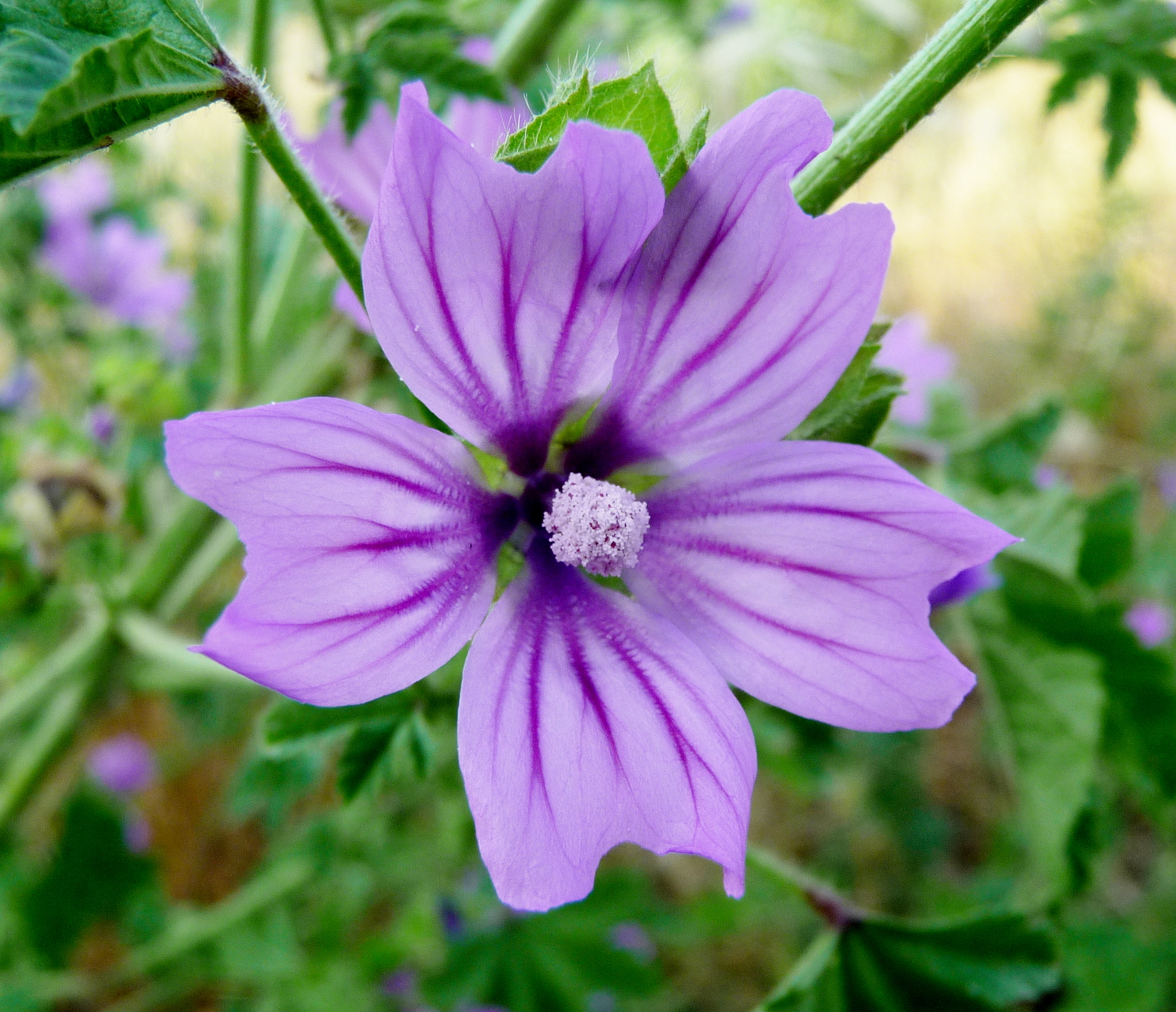 Malva sylvestris, near Livorno, Tuscany, Italy